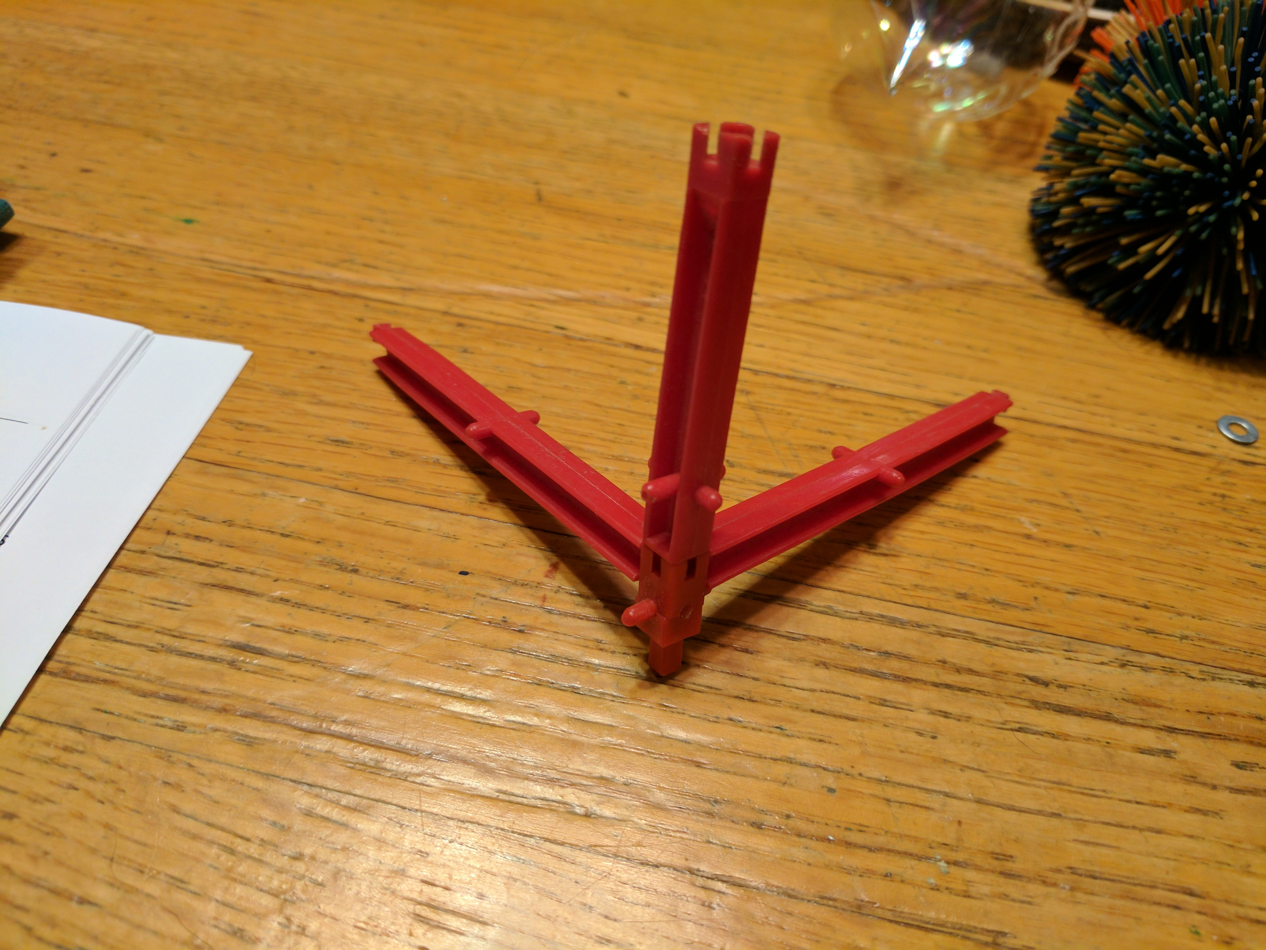 A set of two beams and one column connected in a triangular configuration